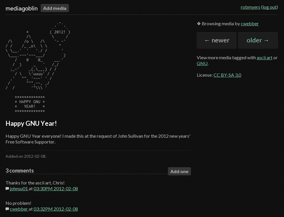 Screenshot of MediaGoblin 0.2.1 showing ASCII art support.